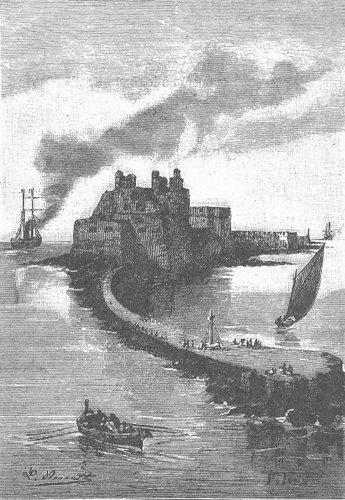 An illustration from Jules Verne's novel "Mathias Sandorf" (1885) drawn by Léon Benett.